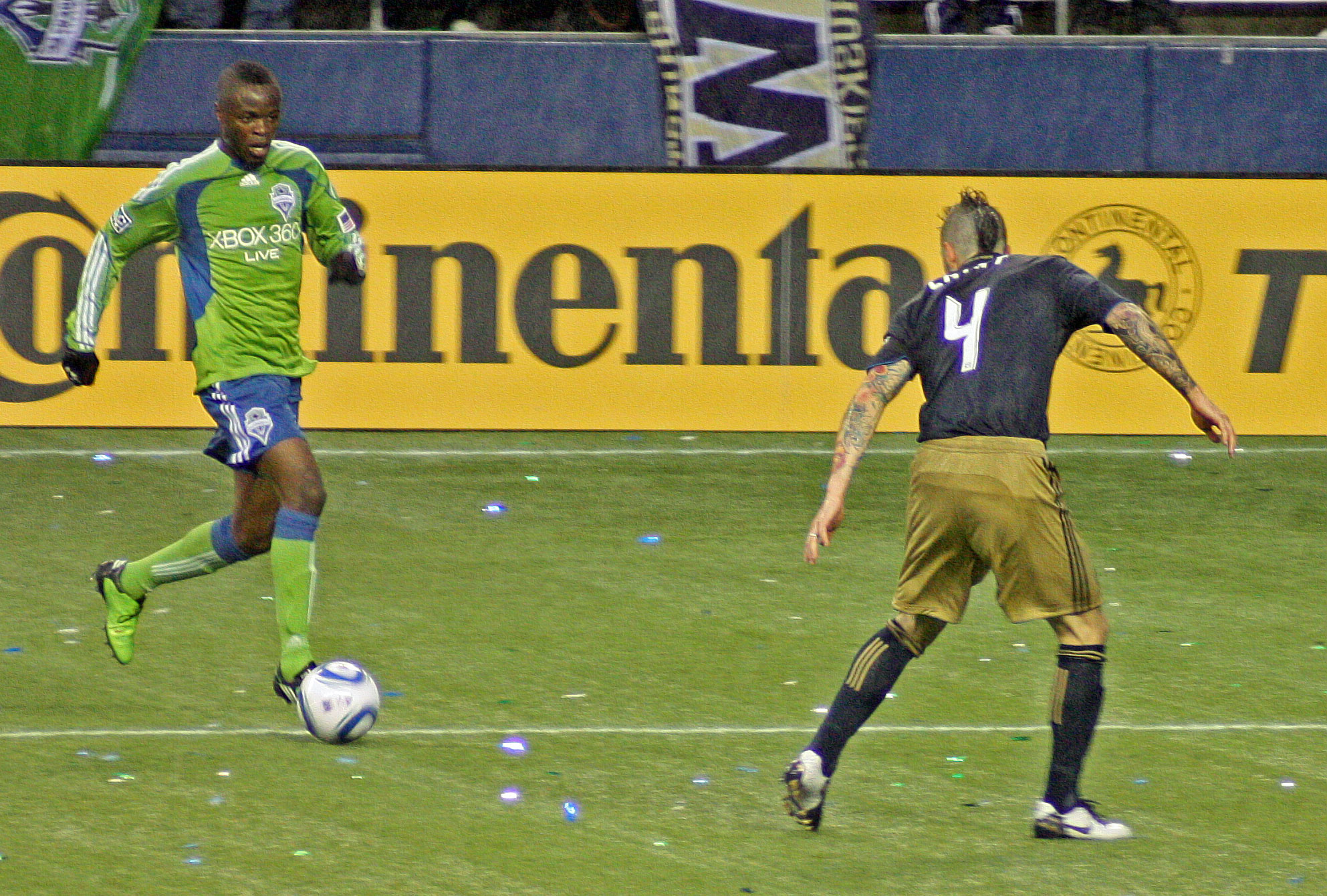 Steve Zakuani menaces the Philly defense in the first half